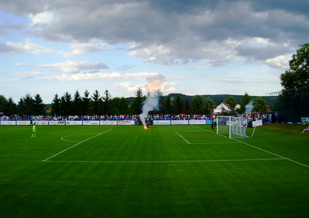 NK Slavija - GNK Dinamo Zagreb, friendly match, June 27th, 2012